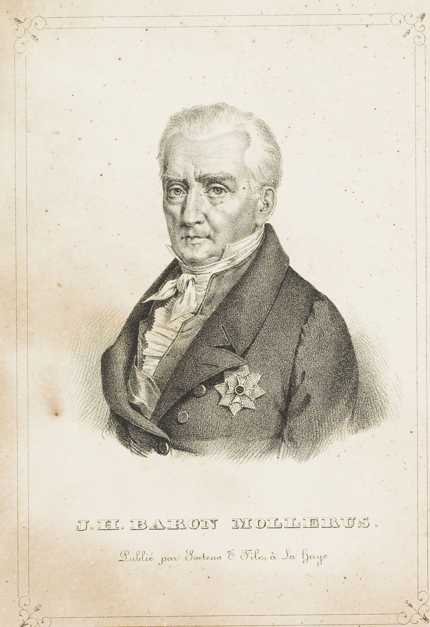 J.H. baron Mollerus, publie par Soetens & fils, a La Haye